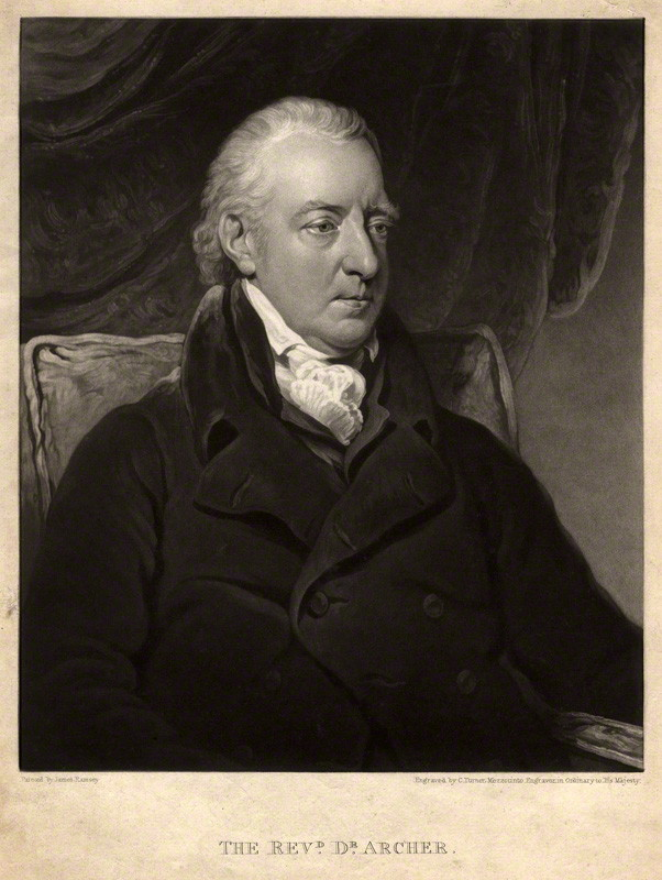 Portrait of James Archer (1751–1834), English Roman Catholic preacher.